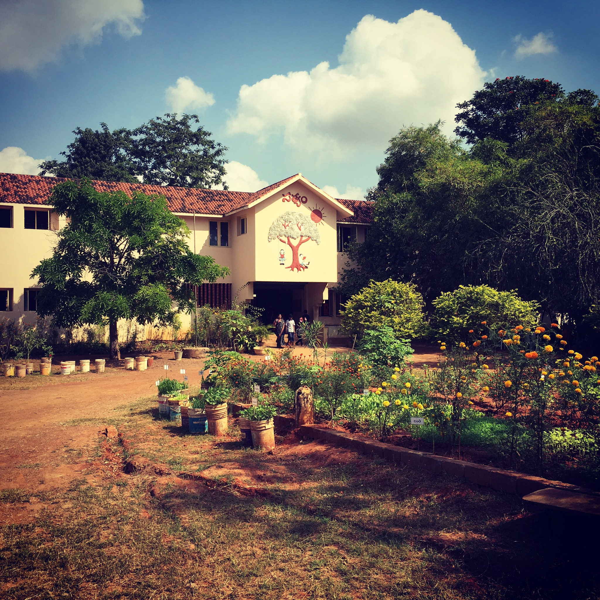 Vikasa Vidya Vanam Satyam Building